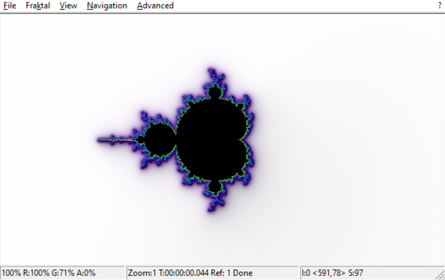 GUI of Kalles Fraktaler2+.